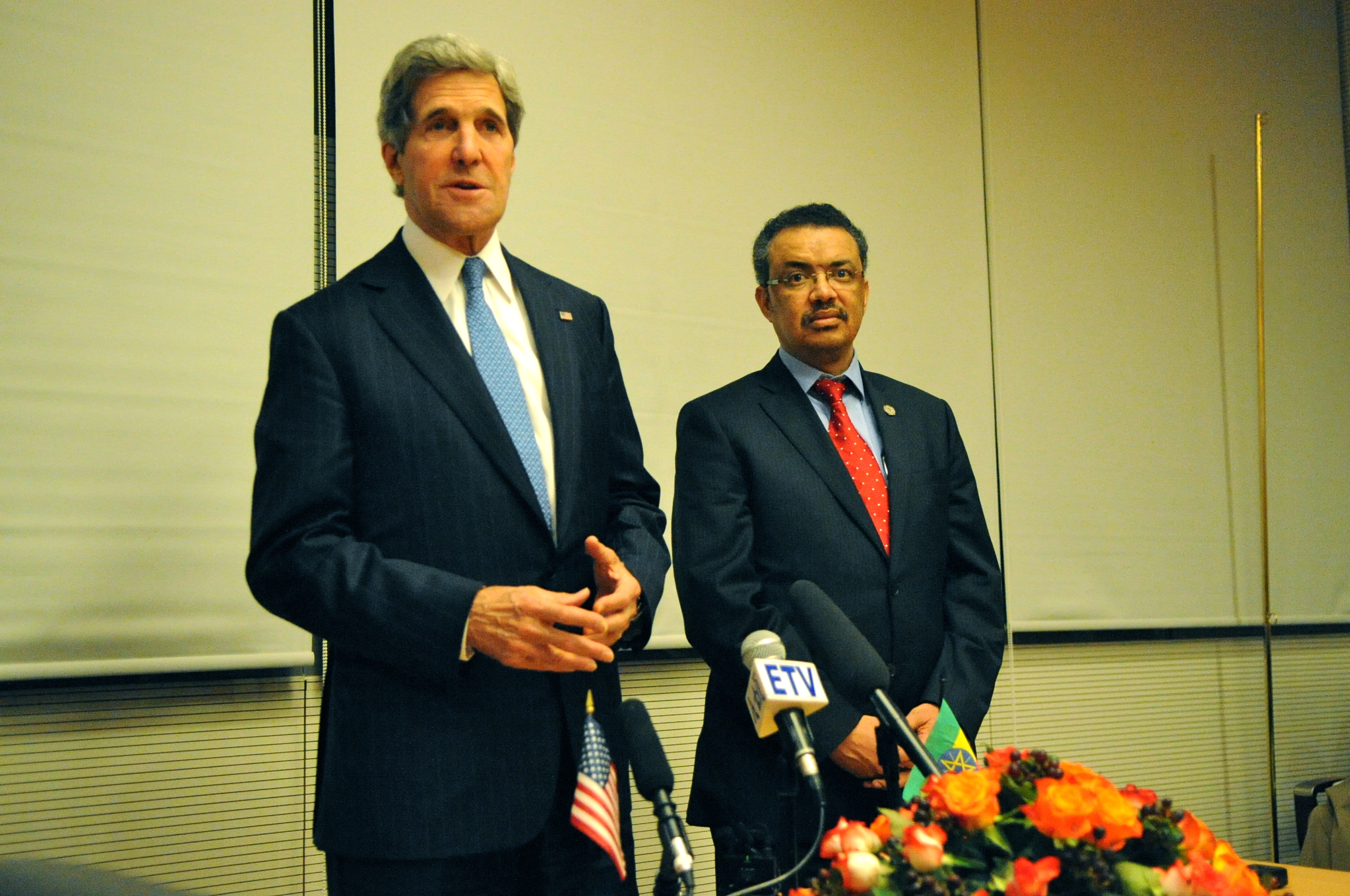 U.S. Secretary of State John Kerry speaks as he and Ethiopian Foreign Minister Tedros Adhanom hold a news conference at the 50th anniversary African Union Summit in Addis Ababa, Ethiopia, on May 25, 2013. [State Department photo/ Public Domain]